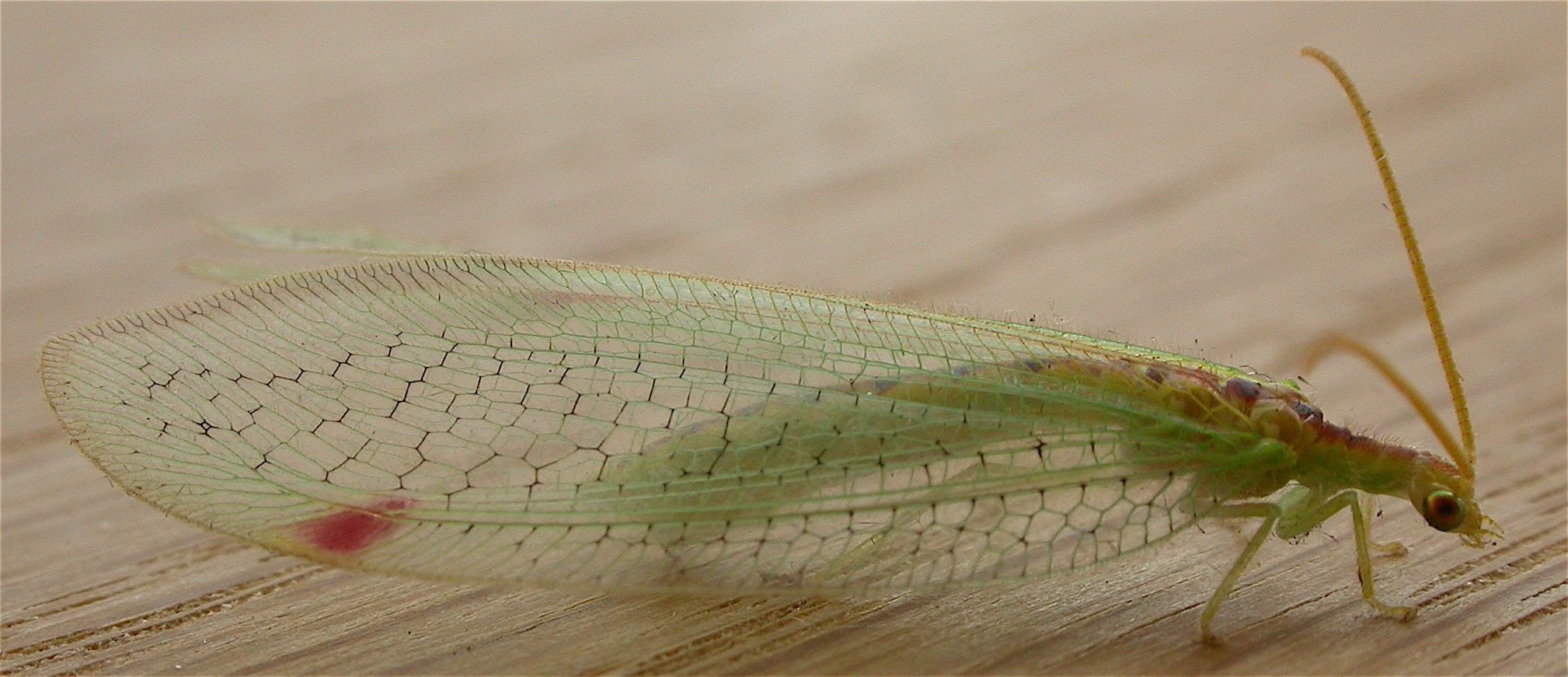 A Norfolius howensis in Australia.